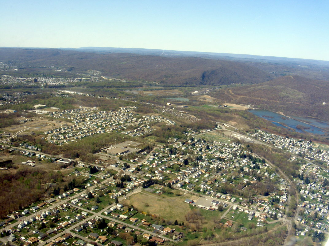 Aerial view of Duryea looking southwest. Susquehanna River, West Pittston can be seen in the background.